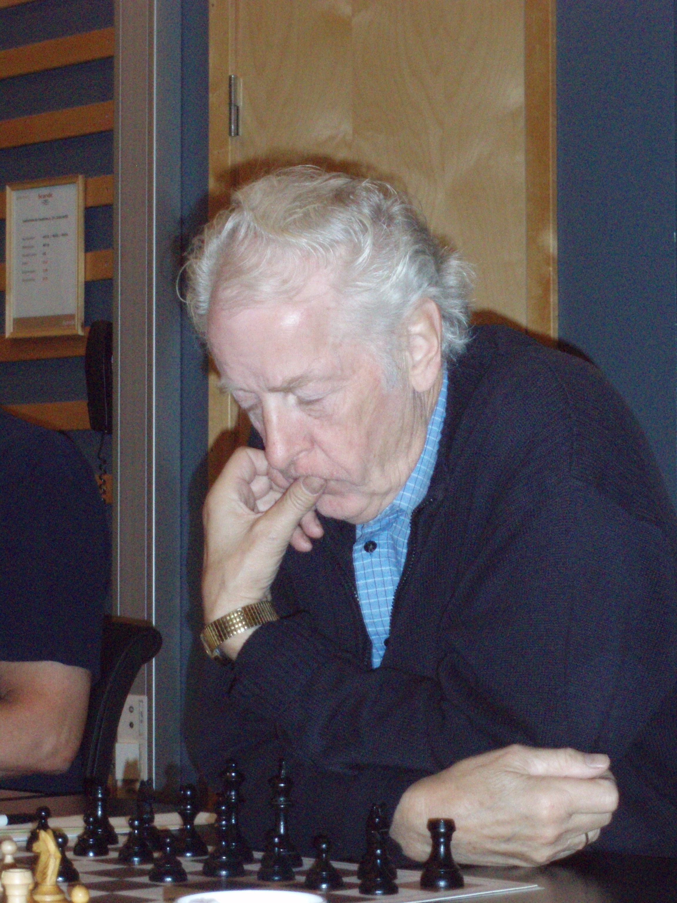 Ragnar Hoen at the Norwegian Chess Championship at Hamar 2007 Ragnar Hoen, NM på Hamar 2007